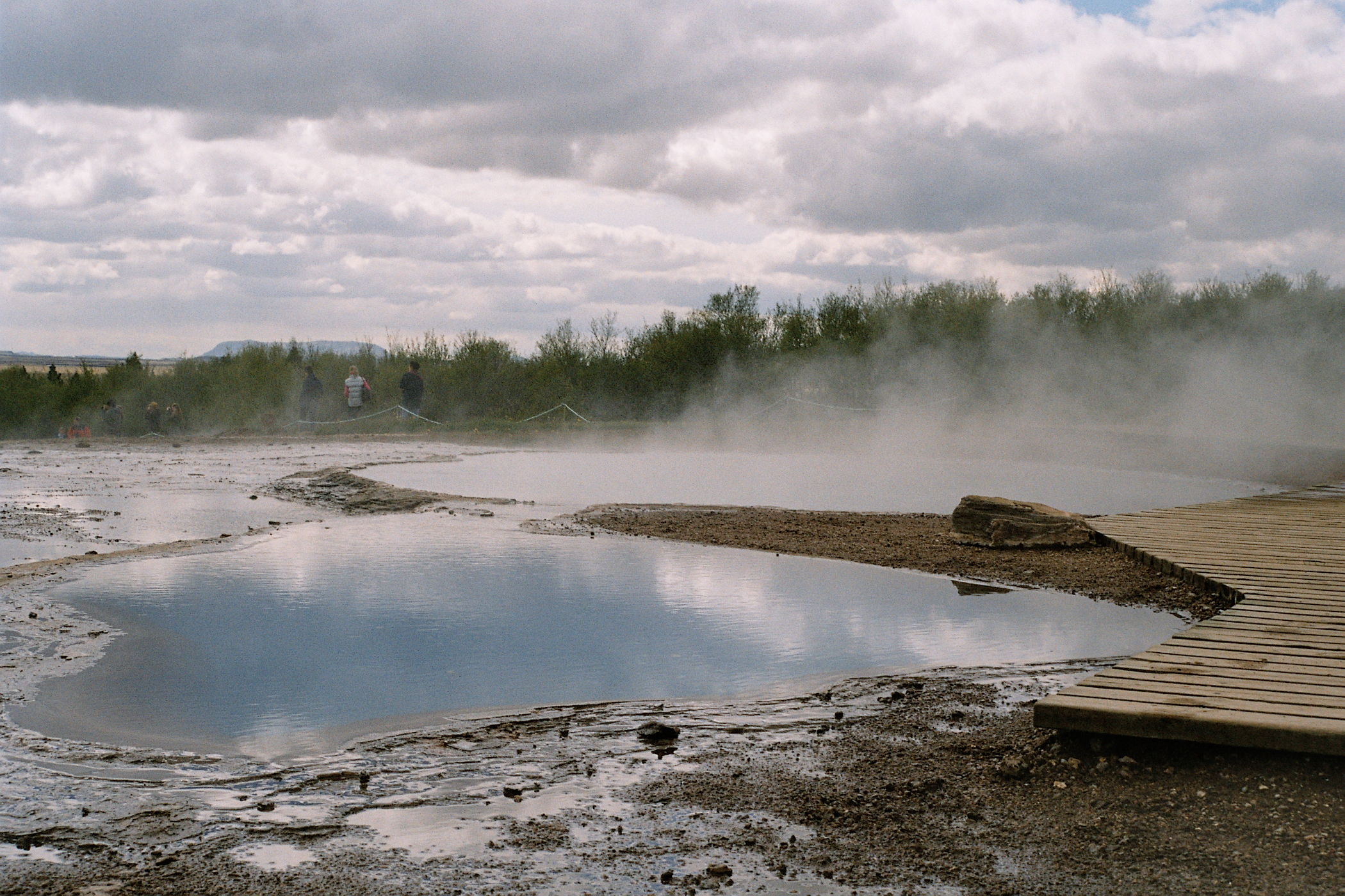 Geyser in Iceland. Taken by me in 2005, with a Canon SLR.